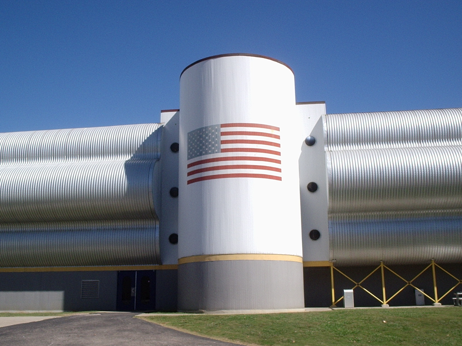 Photo of the back of Space Camp Habitat 1 at the Alabama Space and Rocket Center.